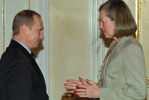 THE KREMLIN, MOSCOW. President Putin with “Wall Street Journal” correspondent Karen Elliott.